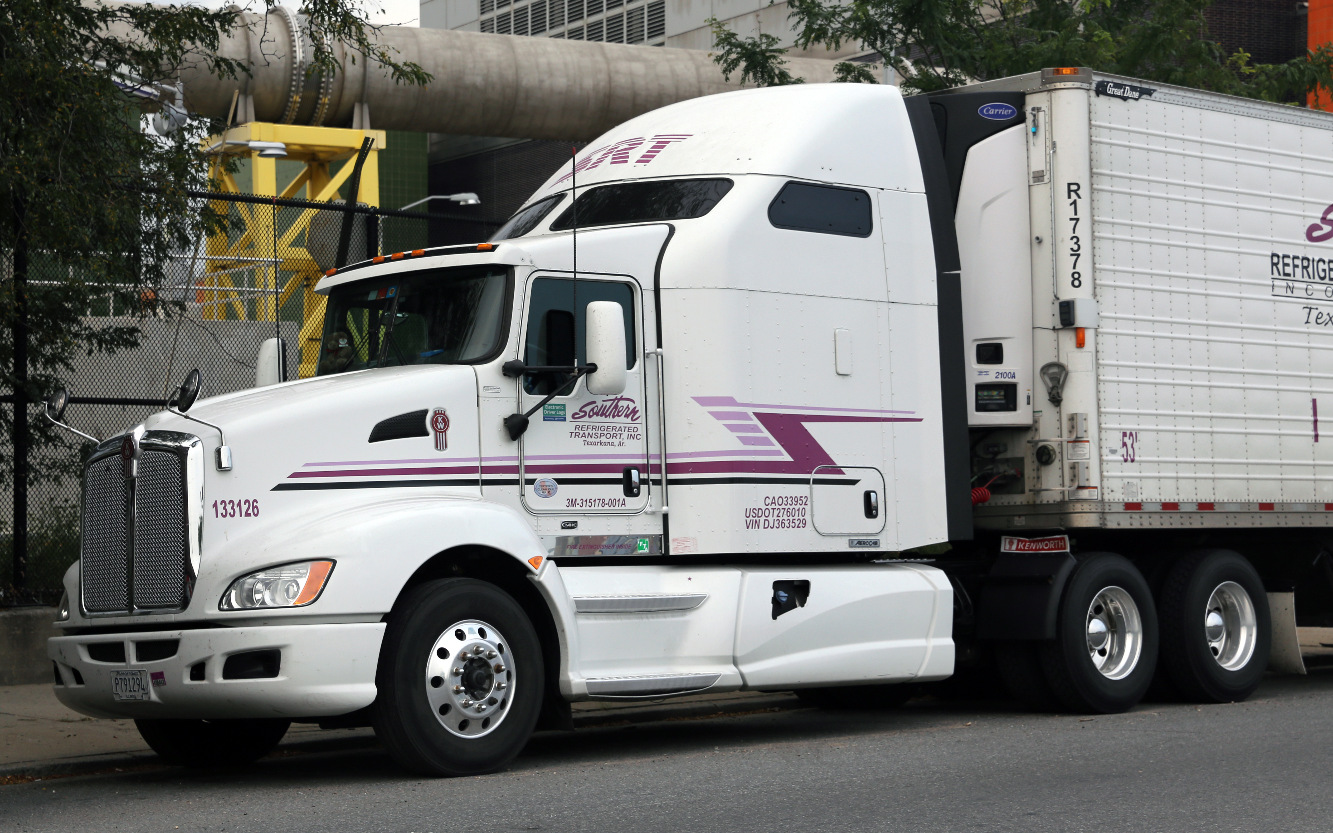 A Kenworth T660 Aerocab trailer truck.